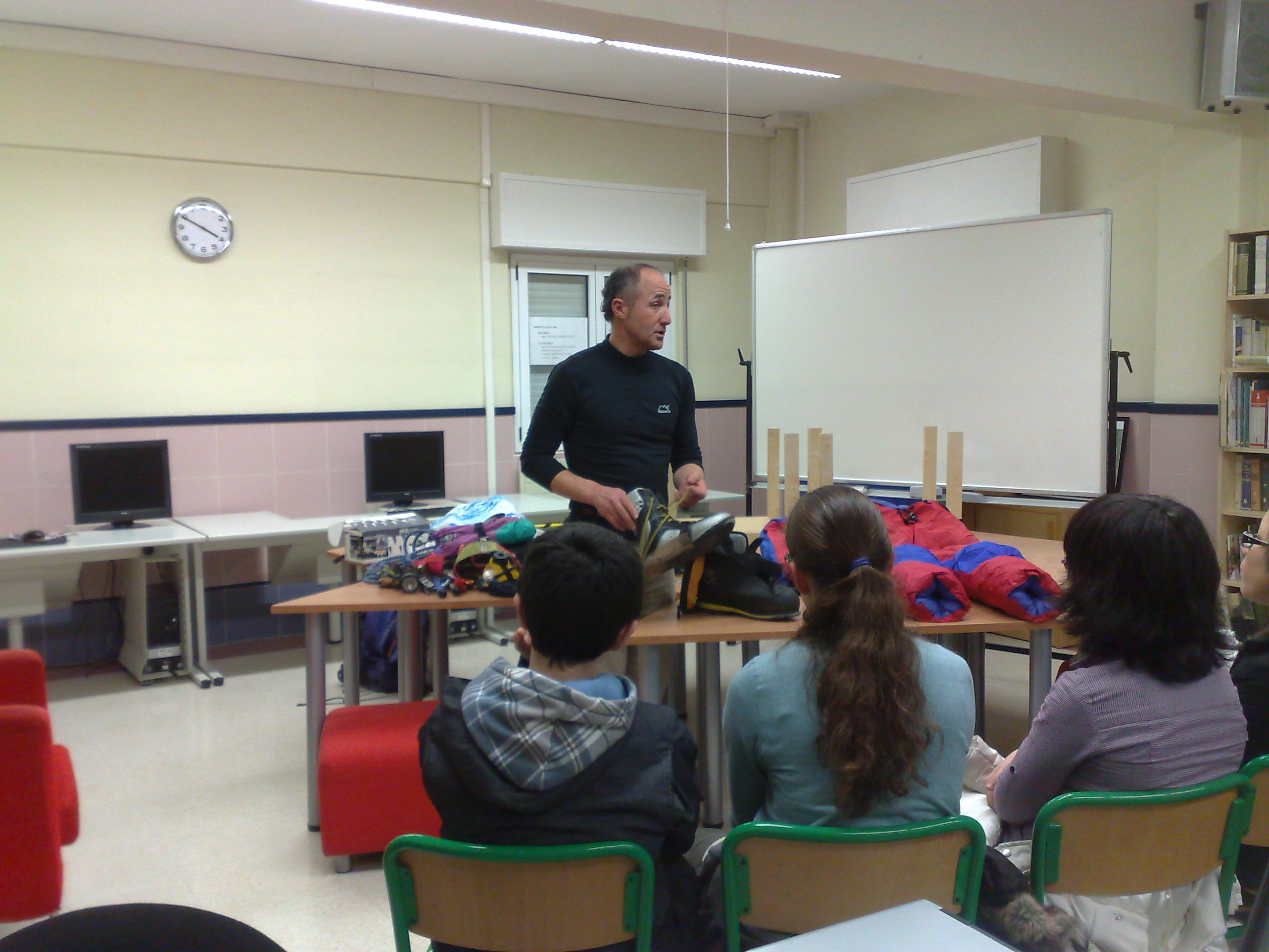 Talk by Julen Reketa, climber from Laudio, Basque Country, at this town's Secondary School.